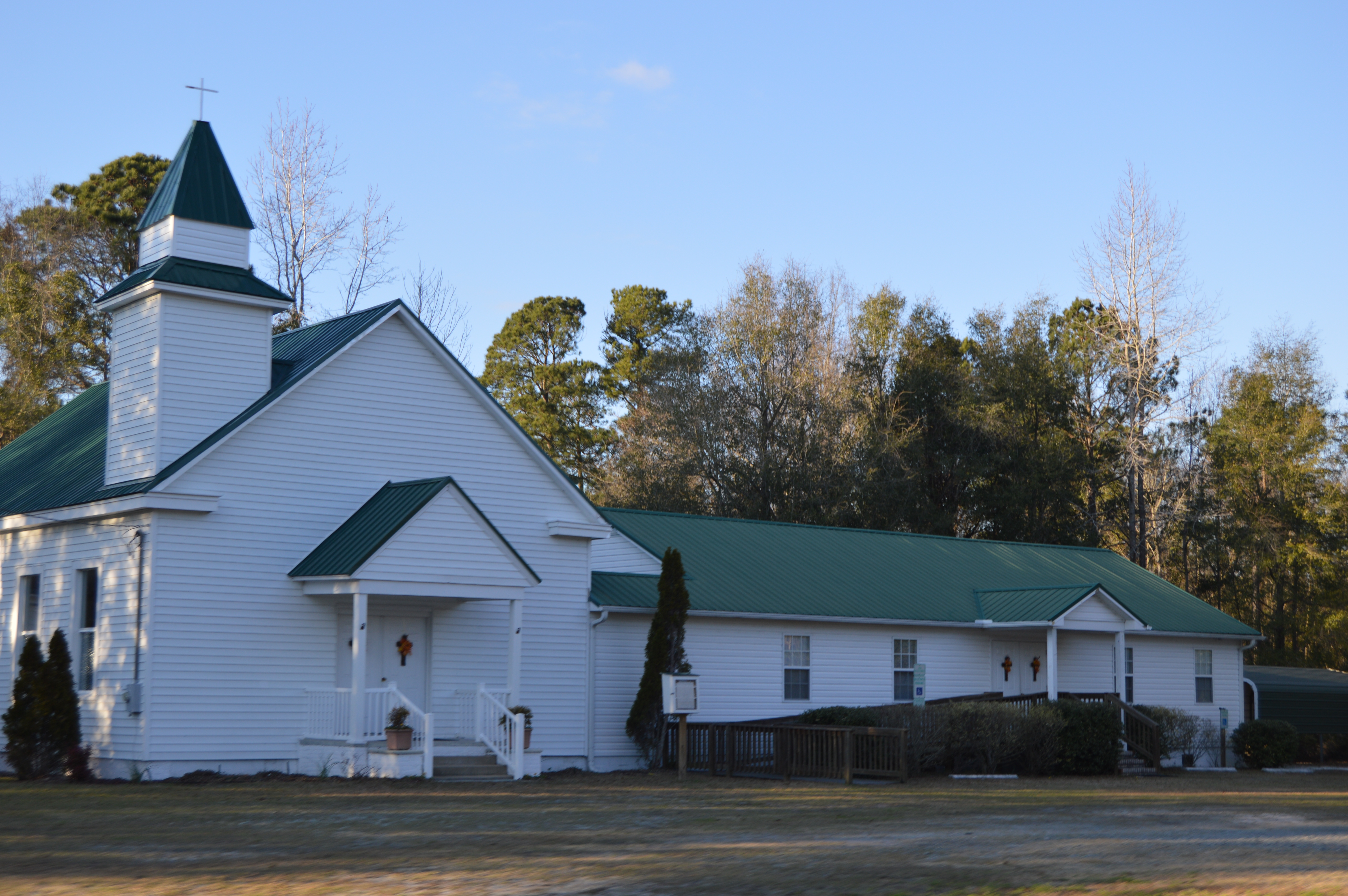 Front of the Currie Community Baptist Church, located at 28396 North Carolina Highway 210 at Currie in Pender County, North Carolina, United States.